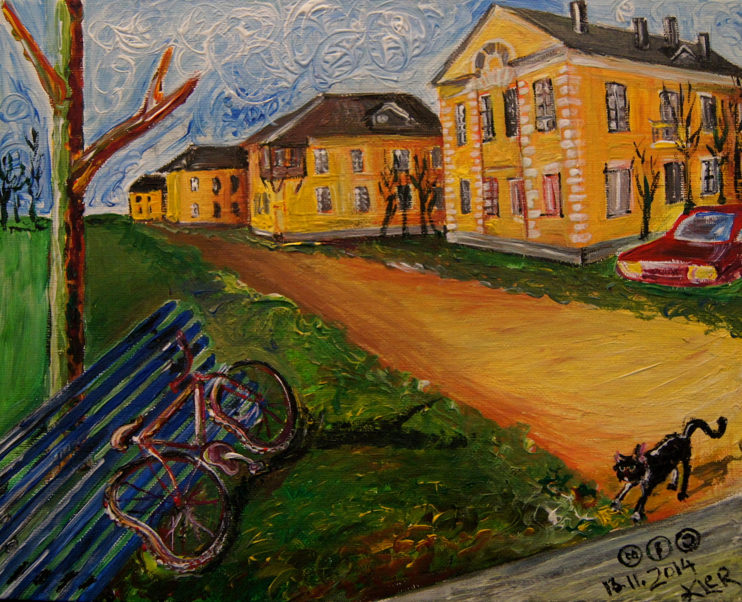 "the stability of Asmaloŭka", a painting by Sviatlana Jermakovič